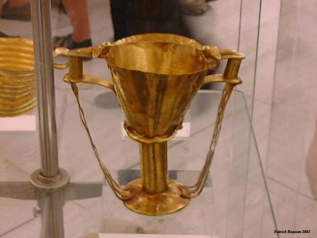 Cup of Nestor